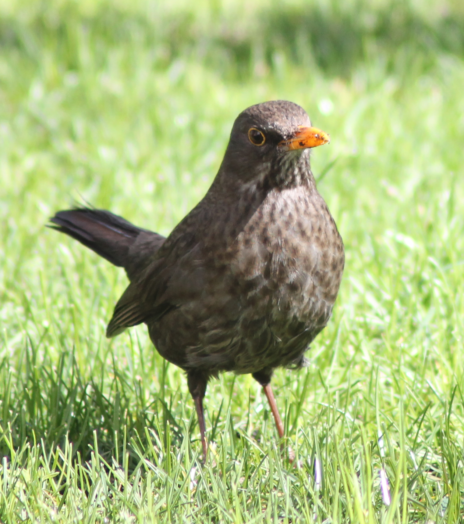 A female blackbird (Turdus merula) in Madrid (Spain).